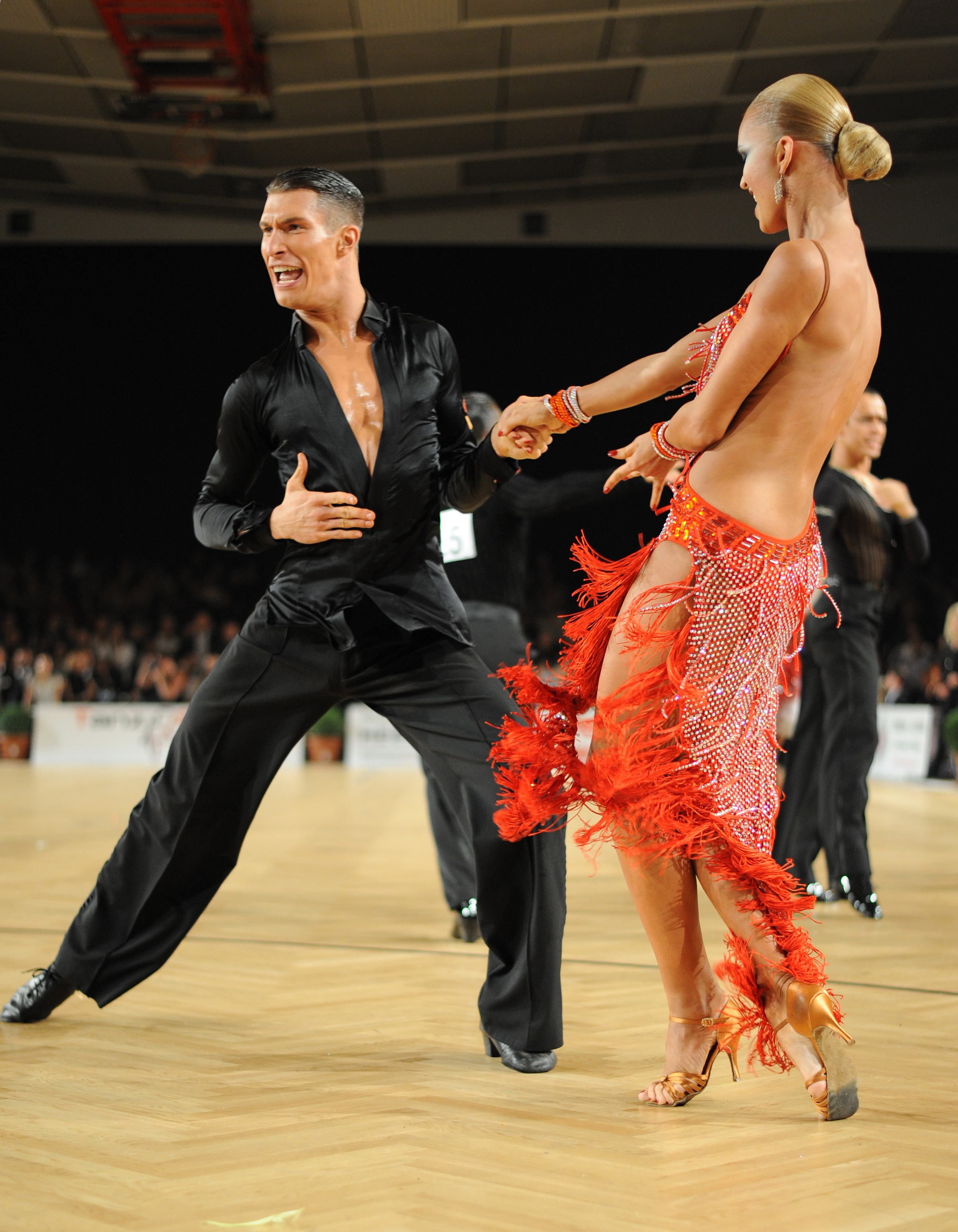 Austrian Open Championships Vienna, 2012 WDSF World Dancesport Championships Latin 16.-18. November 2012 The making of this work was supported by Wikimedia Austria. For other files made with the support of Wikimedia Austria, please see the category Supported by Wikimedia Österreich. Personality rights warningAlthough this work is freely licensed or in the public domain, the person(s) shown may have rights that legally restrict certain re-uses unless those depicted consent to such uses. In these cases, a model release or other evidence of consent could protect you from infringement claims.